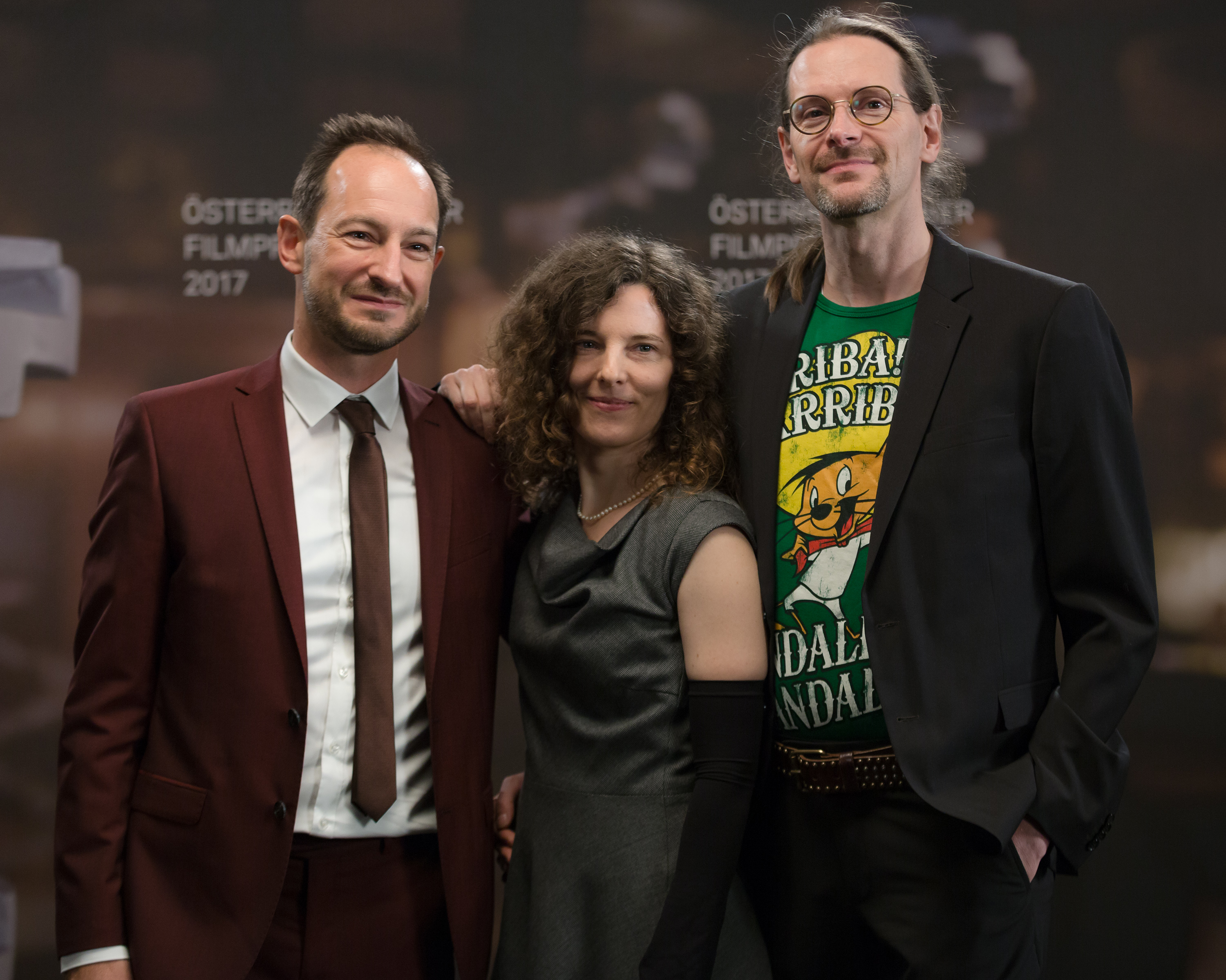 Jörg Kidrowski, Veronika Hlawatsch and Bernhard Maisch, the sound editors of Center of my World, at the Austrian Film Awards 2017 (Rathaus, Vienna,Austria).